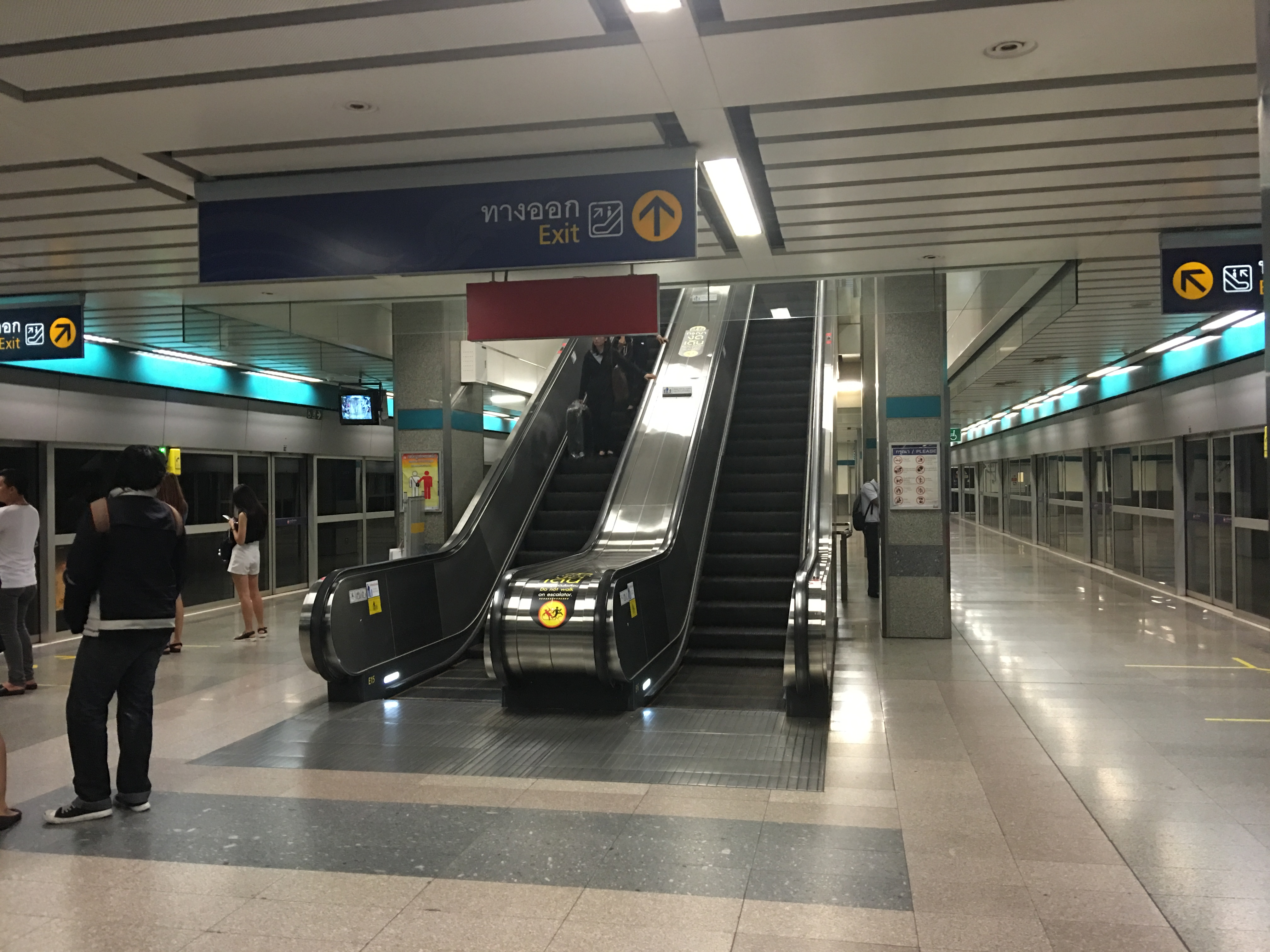 The platform level of Lat Phrao Station